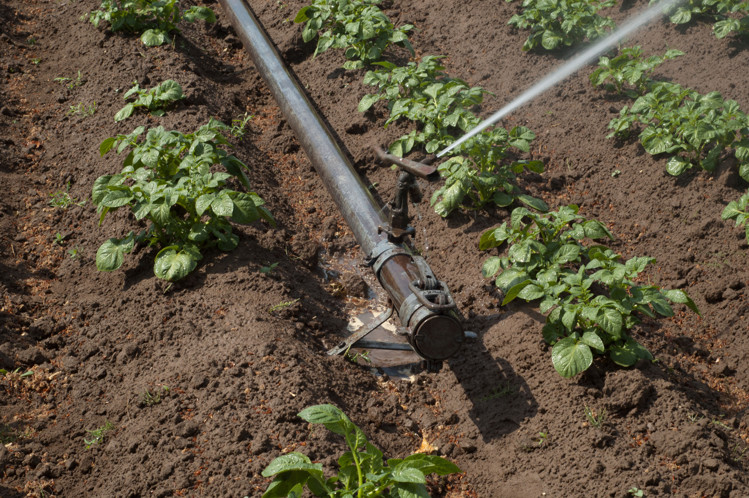 Irrigation system "Perrot" from firm Perrot, Calw, Germany:sprinkler and end fitting. The diagonal, silver stripe from the annotated blast pipe in the middle to right above is the waterjet, produced by the sprinkler Above the blast pipe, also in the middle of the picture, the mechanism, which, produces the rotation of the blast pipe round the vertical axis of the sprinkler. It's an counterwheigted crank, that in an oscillating motion periodical would be hit by the waterjet and so gives the sprinkler blast pipe an radial moment fo force to move an angle bracket further. The high speed accelerated water jet and the oscillating crank are in case of motion volitional not sharp repoduced, in matter of showing the besides the blast pipe only stiring parts of the complete system.